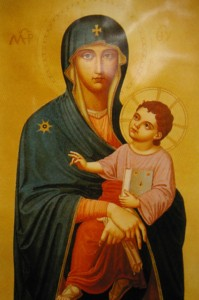 Icon of Our Lady of Snow